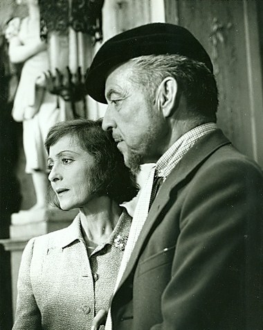 Luise Rainer & Ramón Novarro in the TV series Combat!, episode Finest Hour - publicity still (cropped : see source)